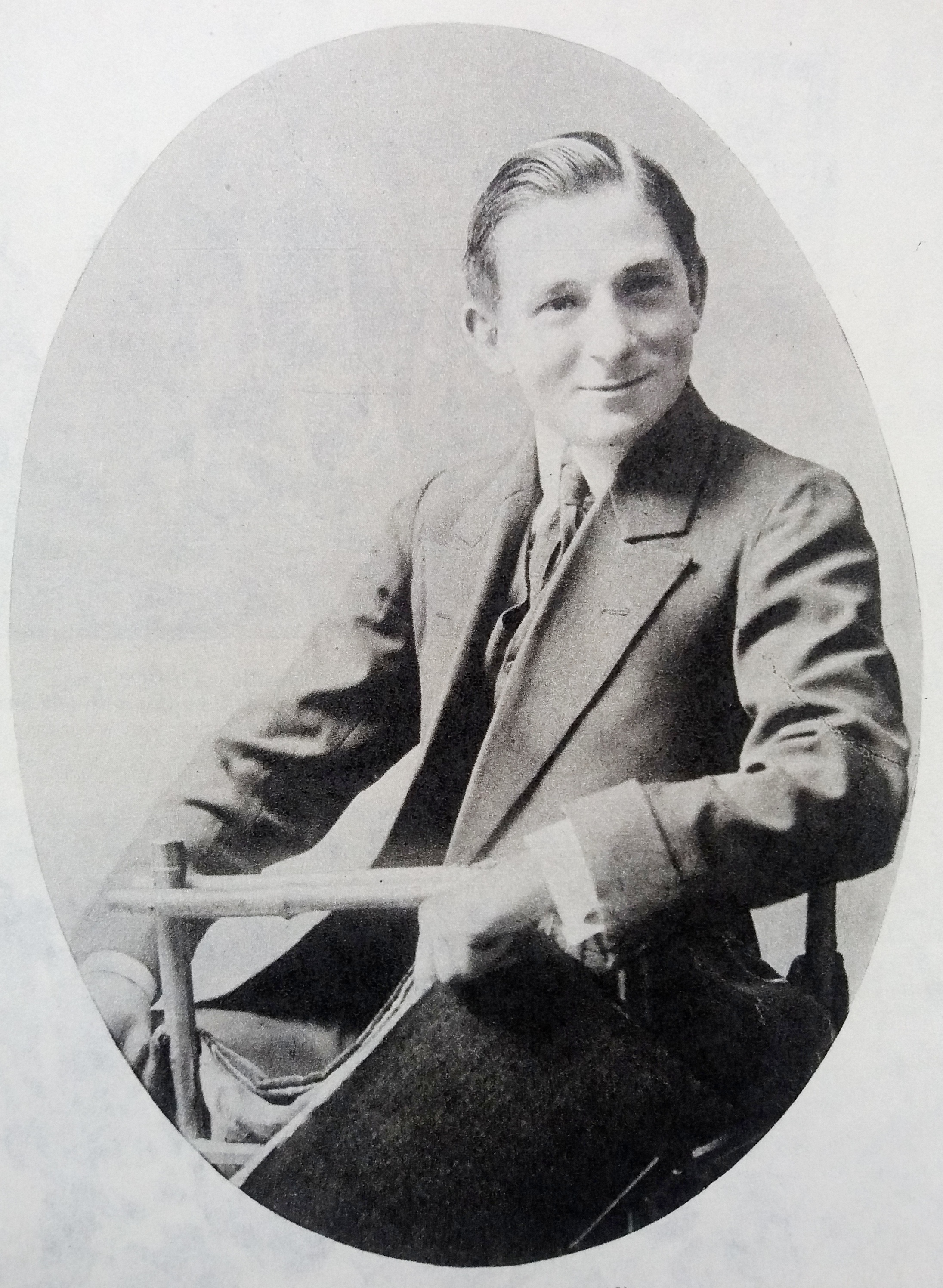 František Kovářík, Czech actor (photo around 1913)